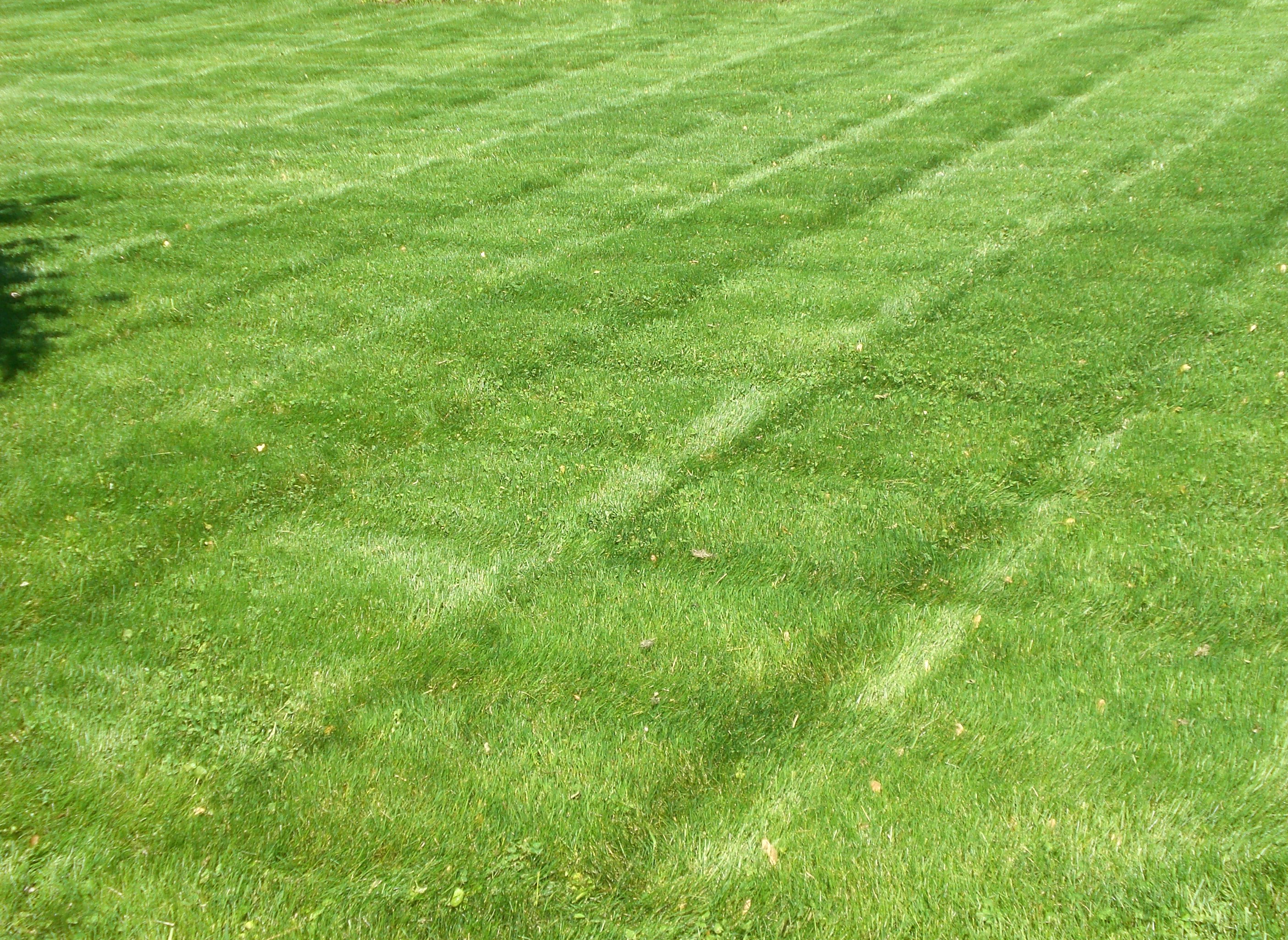 A Striped Lawn